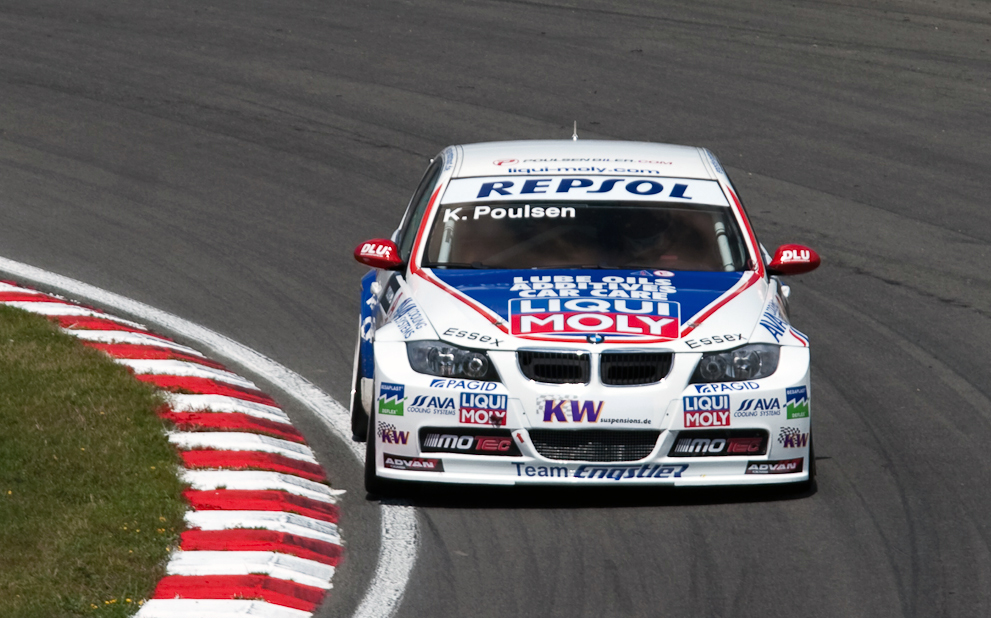 Kristian Poulsen driving a BMW 320si for Liqui Moly Team Engstler in the 2009 FIA WTCC Race of UK at Brands Hatch.